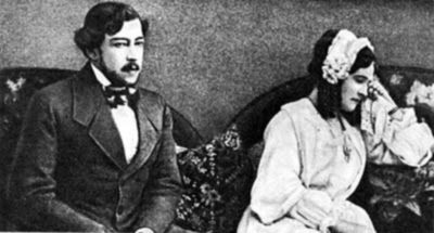 Constantin Stanislavski and Olga Knipper in the MAT production of Turgenev's A Month in the Country in 1909.